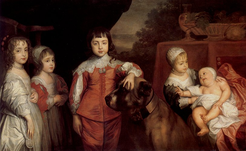 Mary, James, Charles, Elizabeth, and Anne